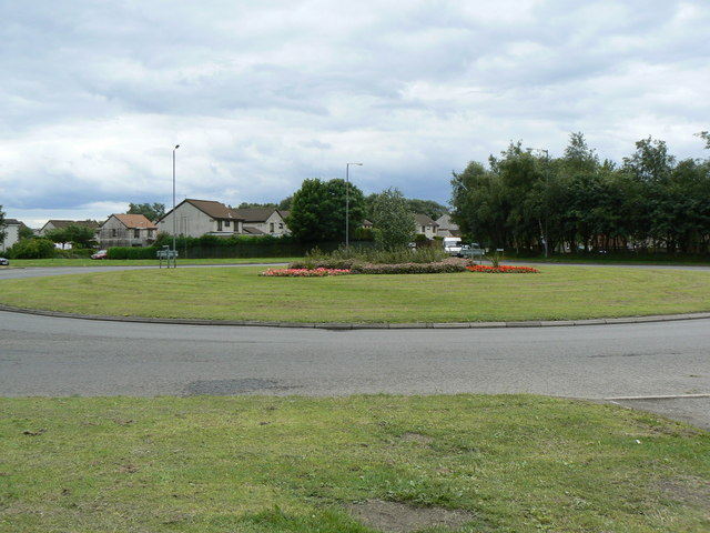 Antonshill roundabout on the A88 road near Stenhousemuir, Scotland